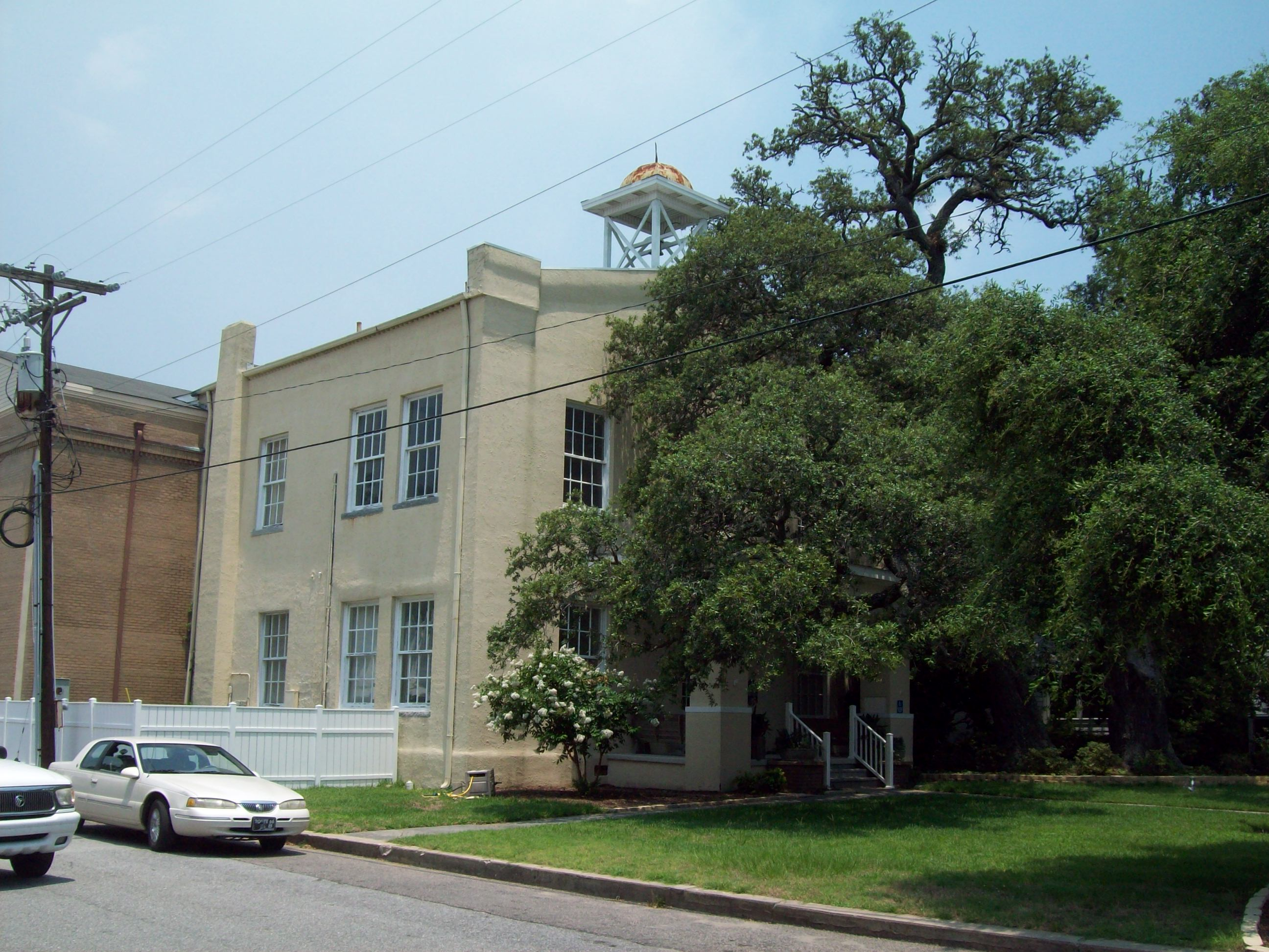 Former Brunswick County Courthouse (now Southport City Hall), Southport, NC, June 2010